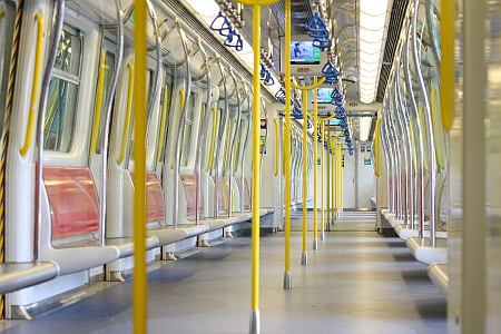 Interior of a SP1900 on East Rail Line